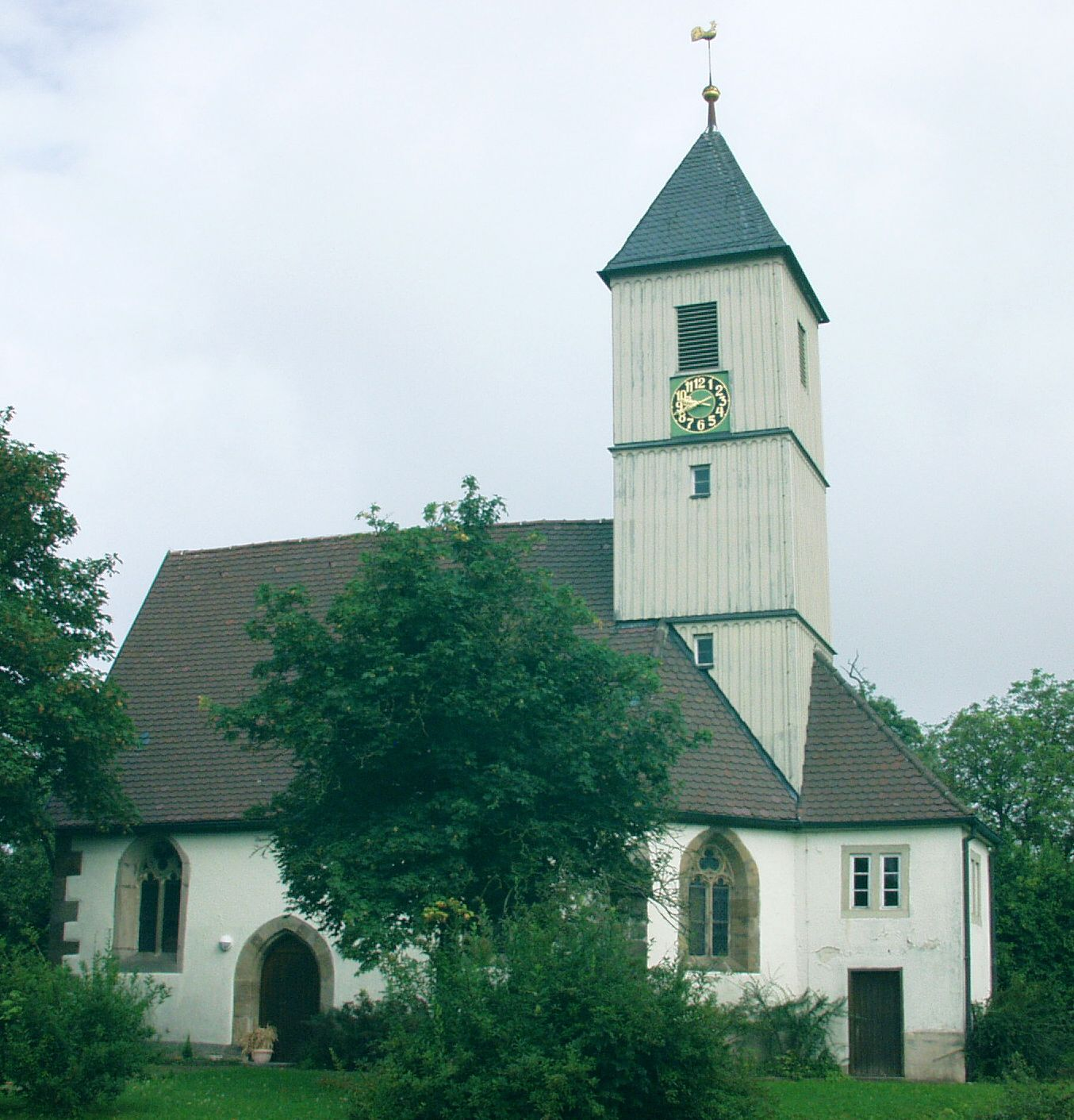 Church of Rienharz, municipality of Alfdorf